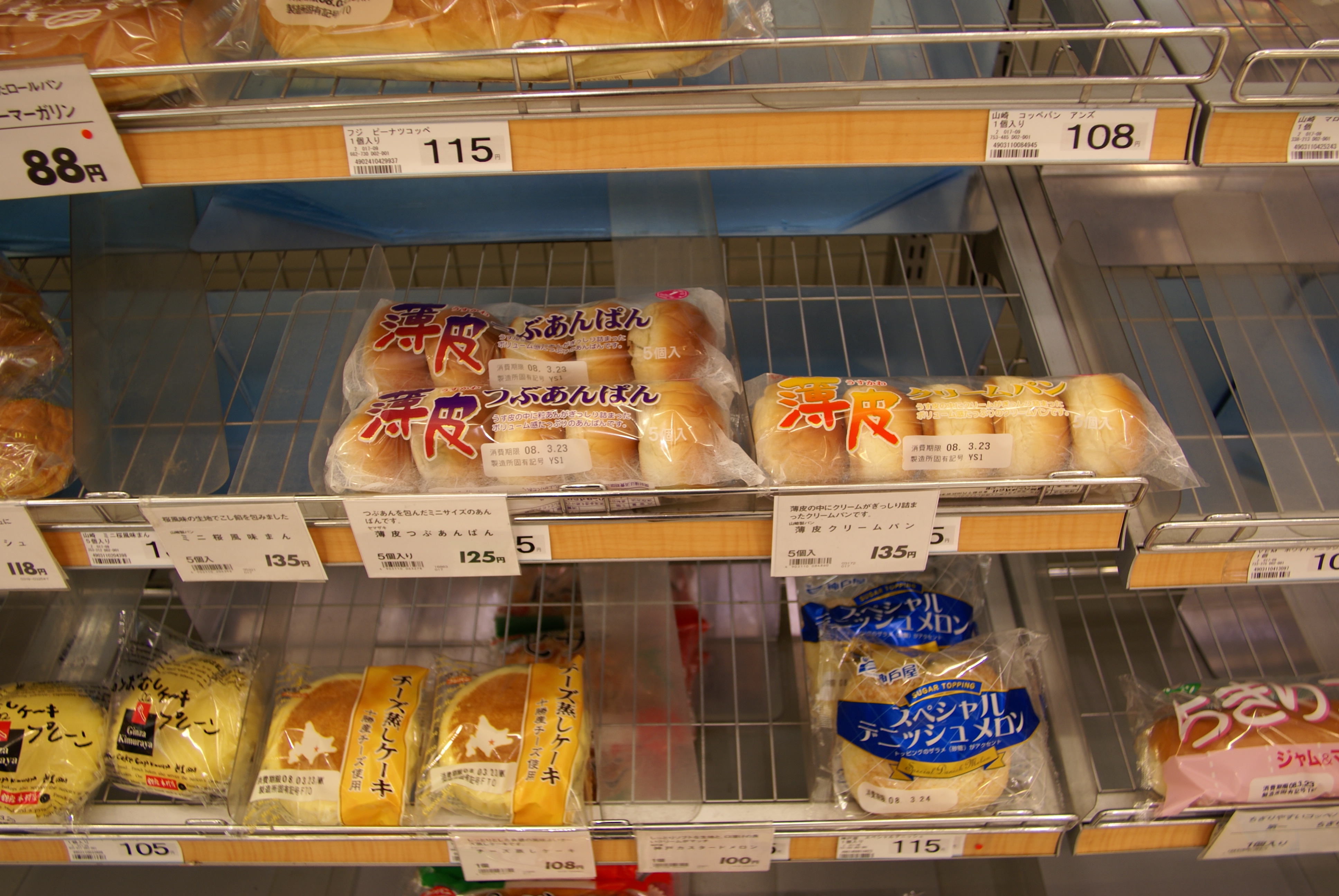 Minipan series of Yamazaki Baking Company Limited